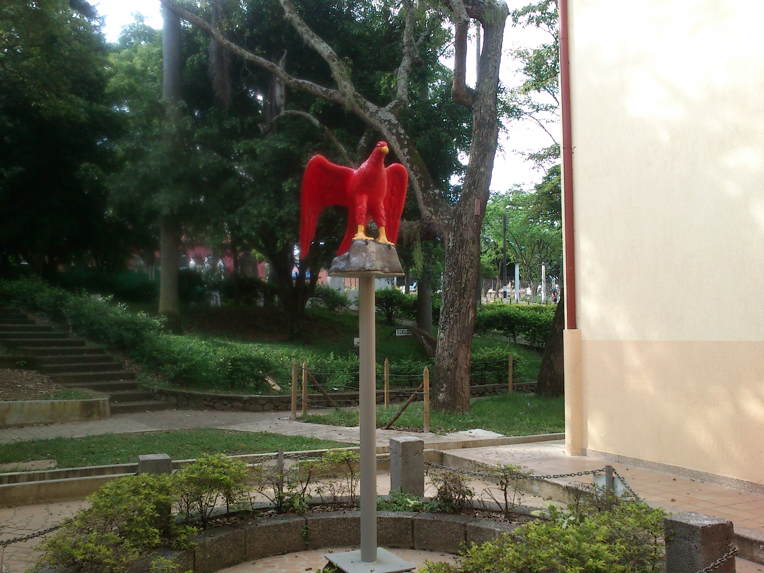 The red eagle of Santa Librada